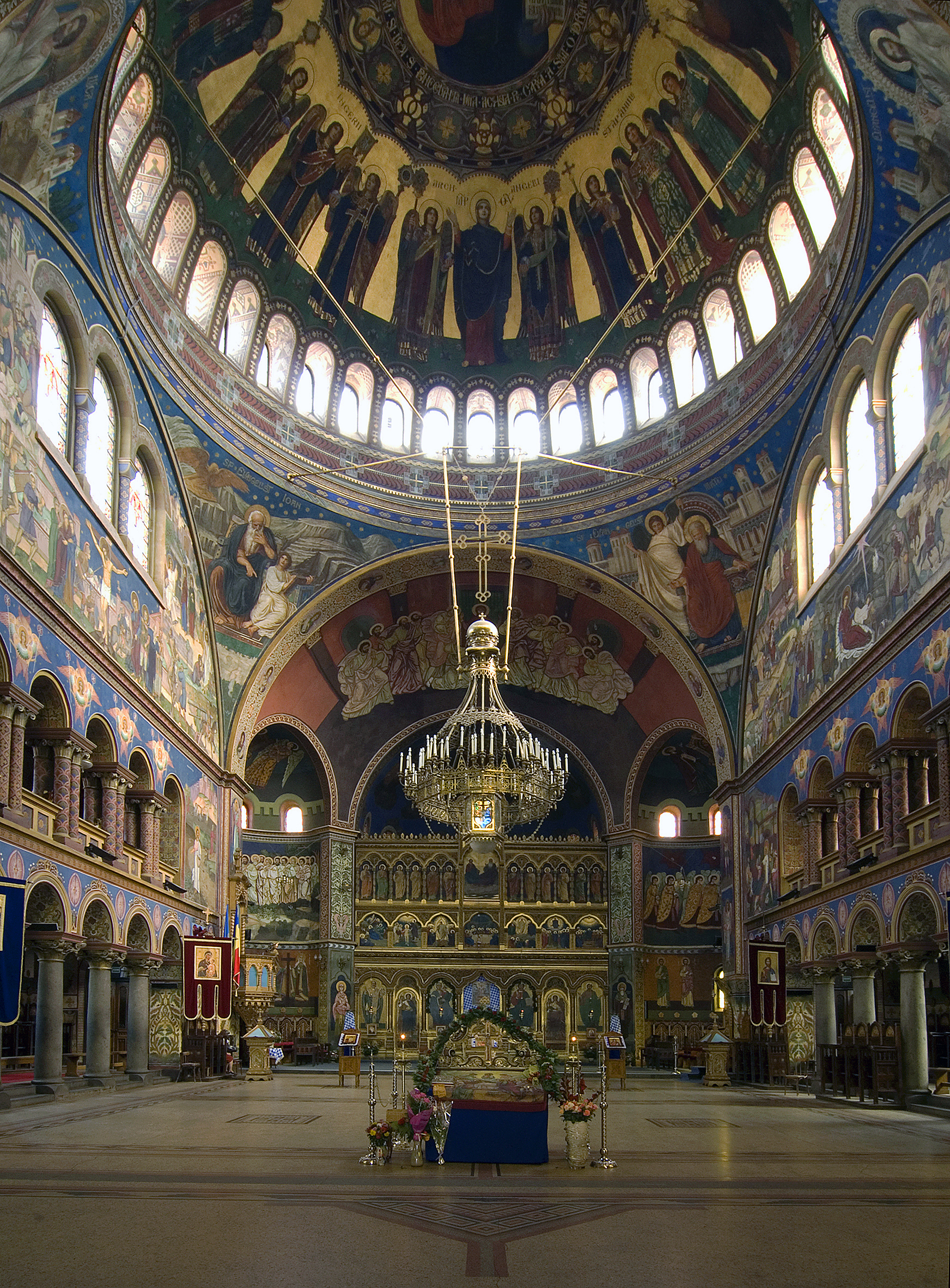 Interior of the Holy Trinity Metropolitan Cathedral in Sibiu, Romania.